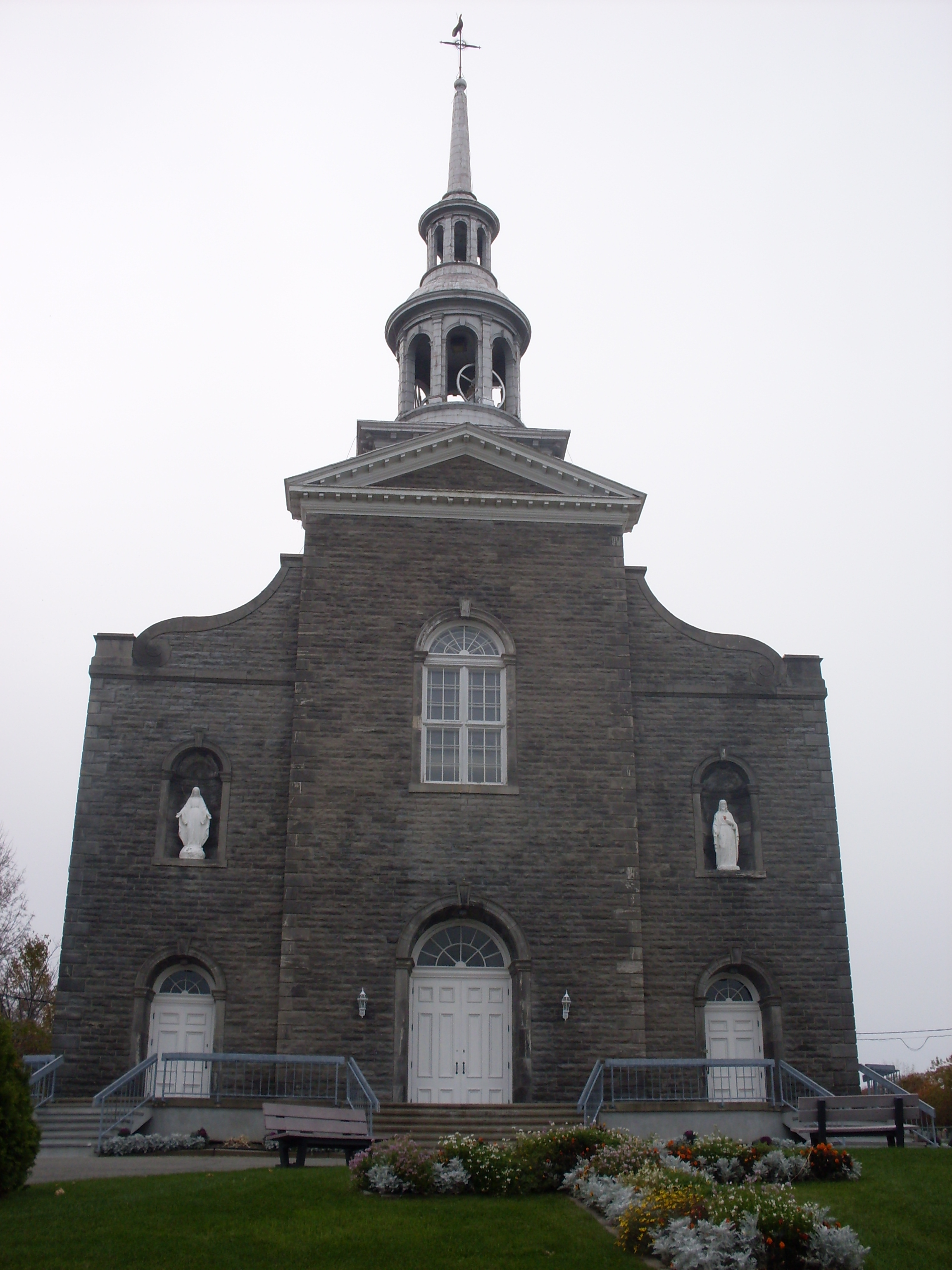 Catholic church of Saint-Joseph-du-Lac, Quebec, built in 1880